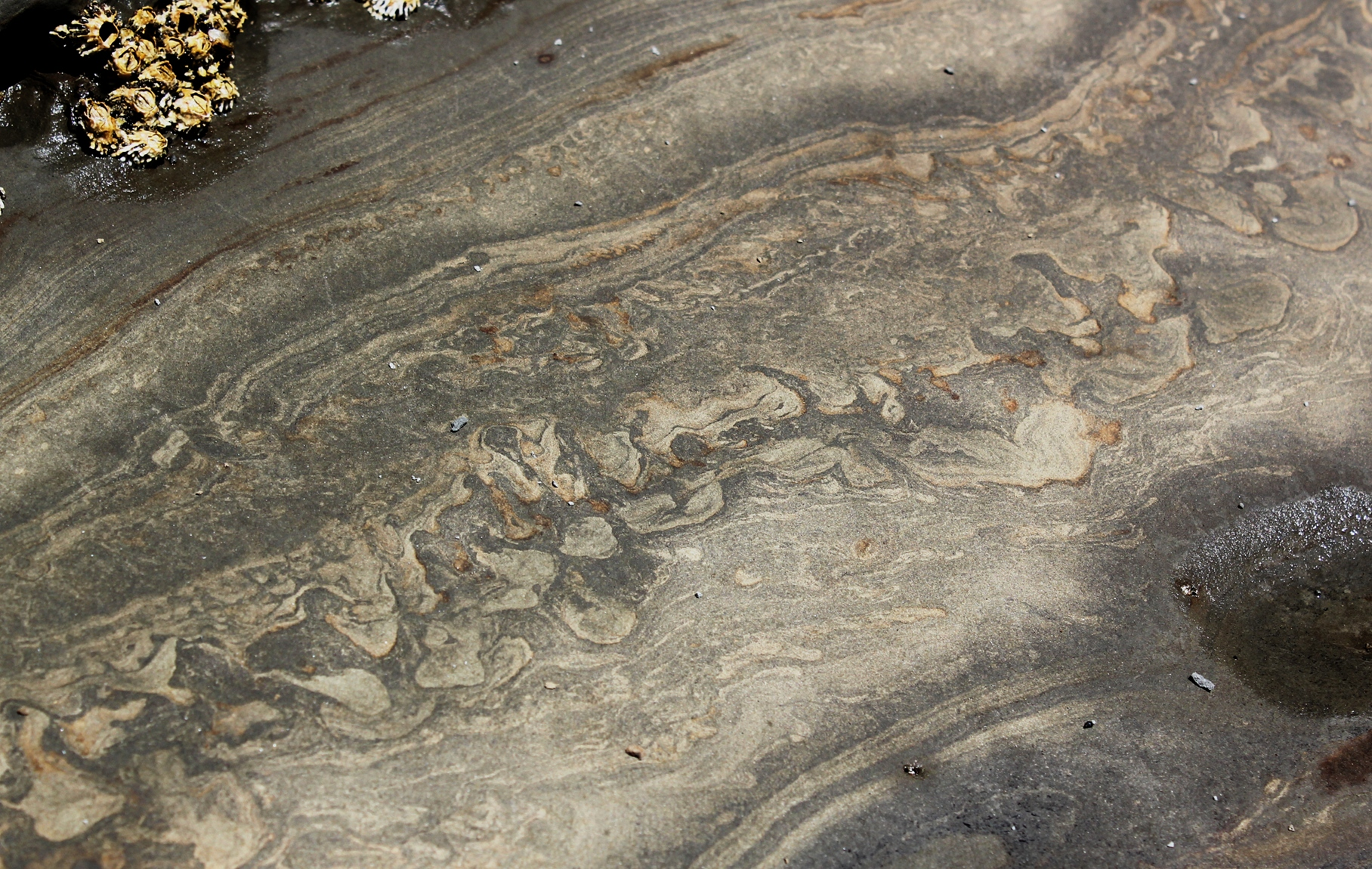 Flame structures in Waitemata sandstone, exposed on an intertidal rock platform between Long Bay and Granny's Bay, Auckland, New Zealand.